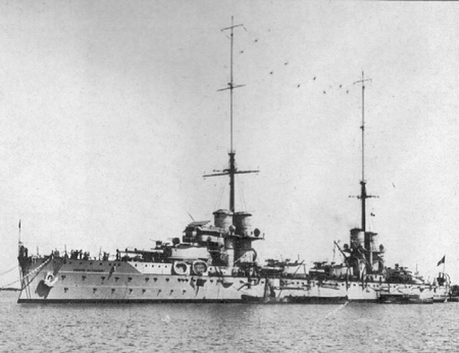 Italian battleship Dante Alighieri